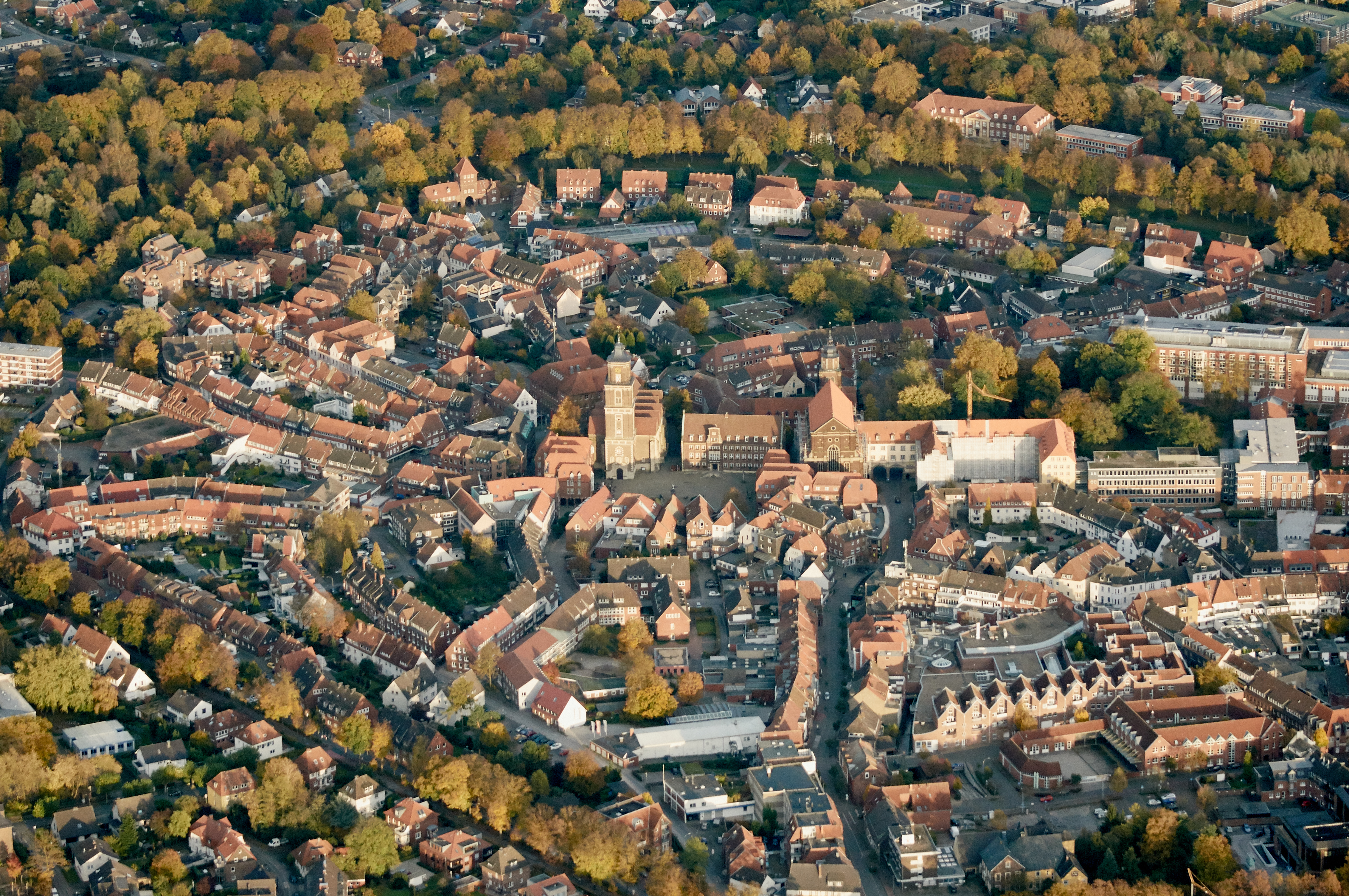 Aerial view of Coesfeld, district of Coesfeld, North Rhine-Westphalia, Germany.